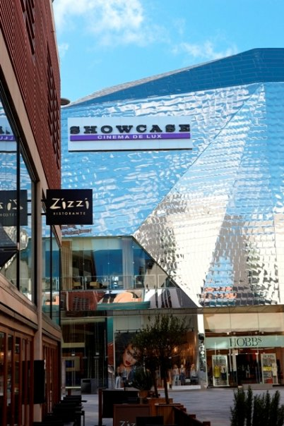 Showcase Cinema de Lux, Highcross Leicester, England